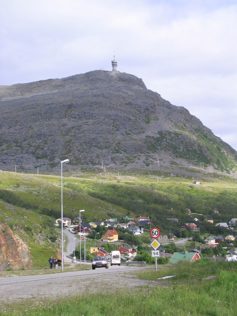 View from Hammerfest suburb.